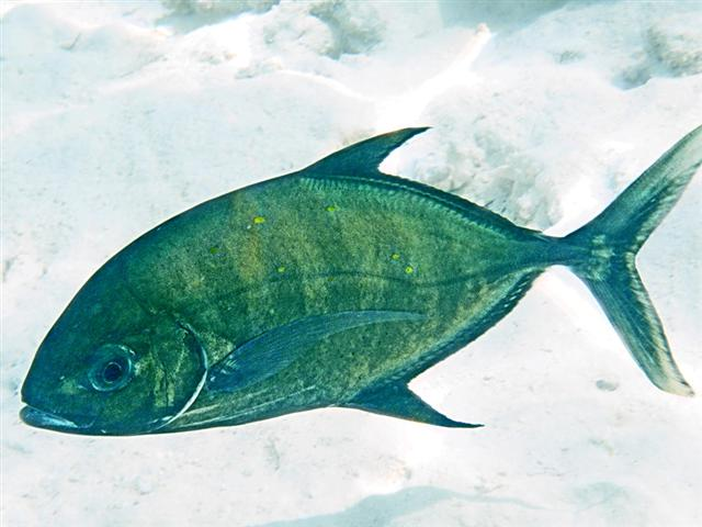 Mirihi, Maldives. Blue trevally. Feb 2011